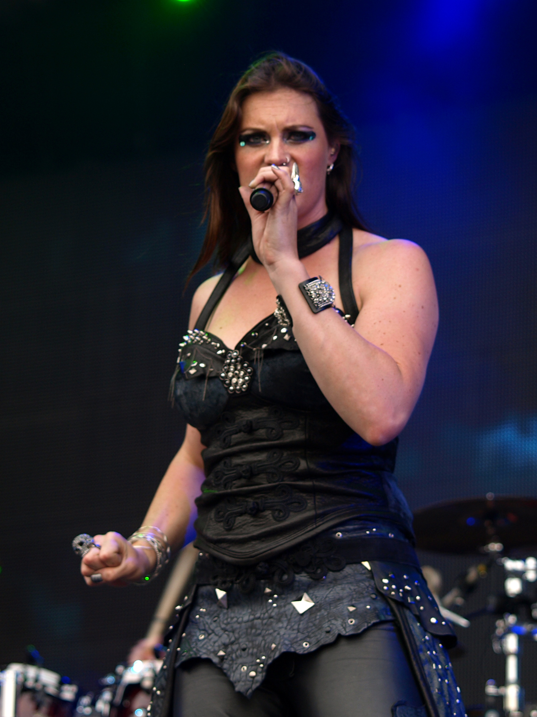 Finnish band Nightwish at Tuska Open Air 2013